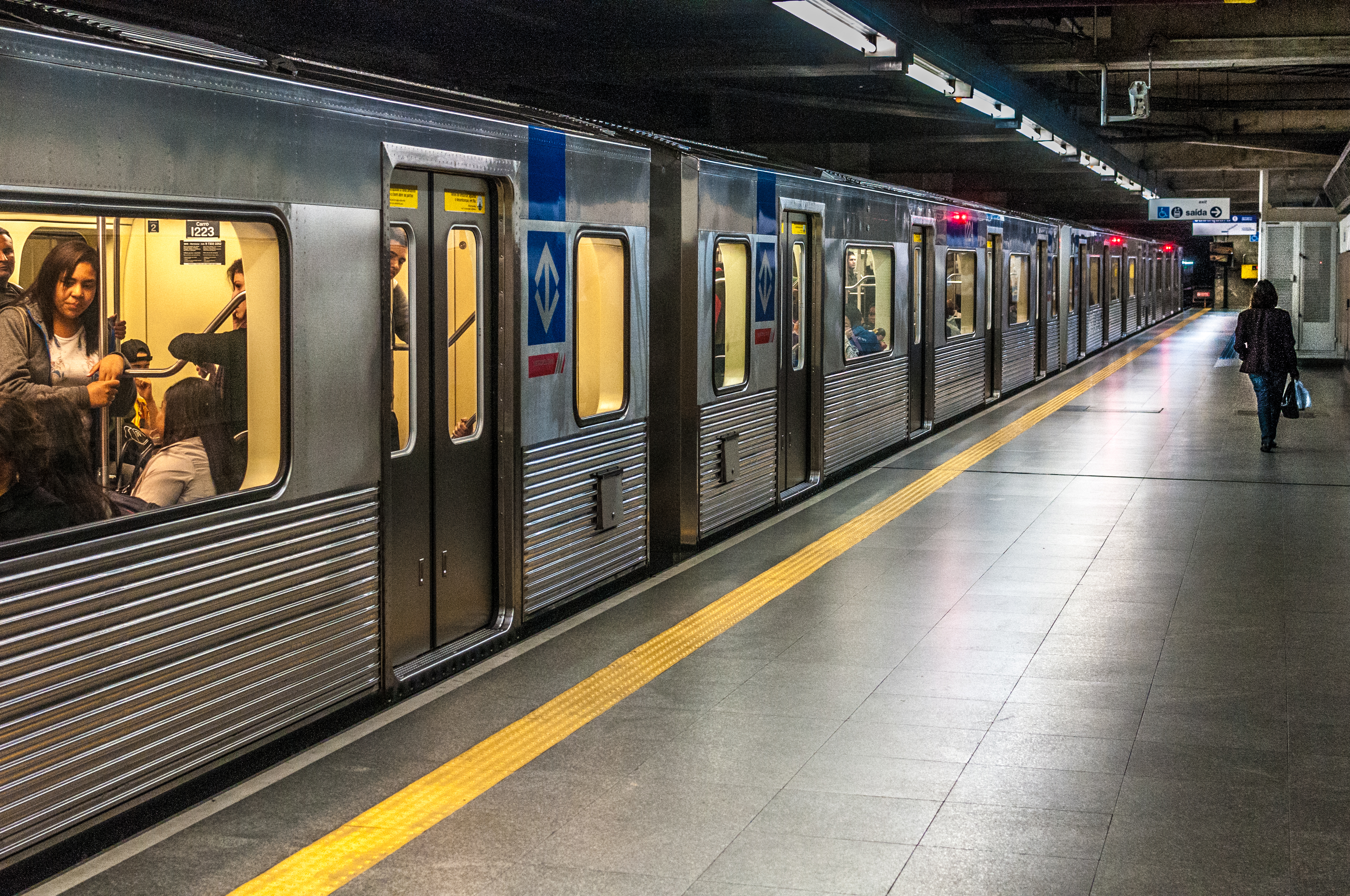 São Paulo Metro, Line blue, Brazil